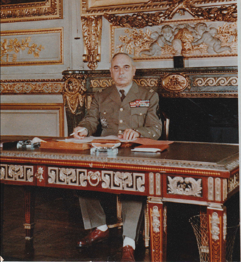 Clément Blanc à l'Ecole Militaire